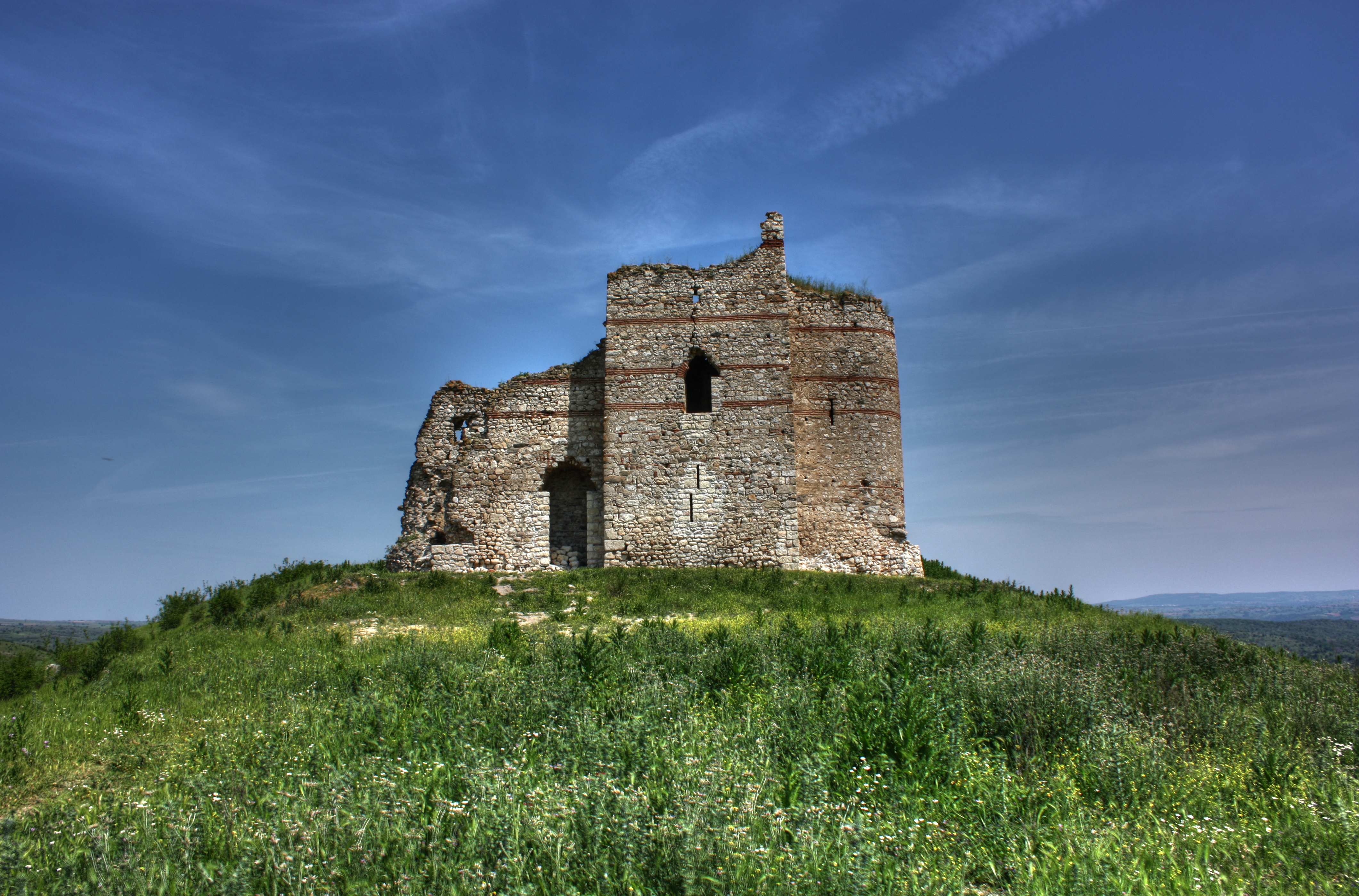 Fortress Bukelon near the Bulgarian village Matochina. 1011km and 20GB more...